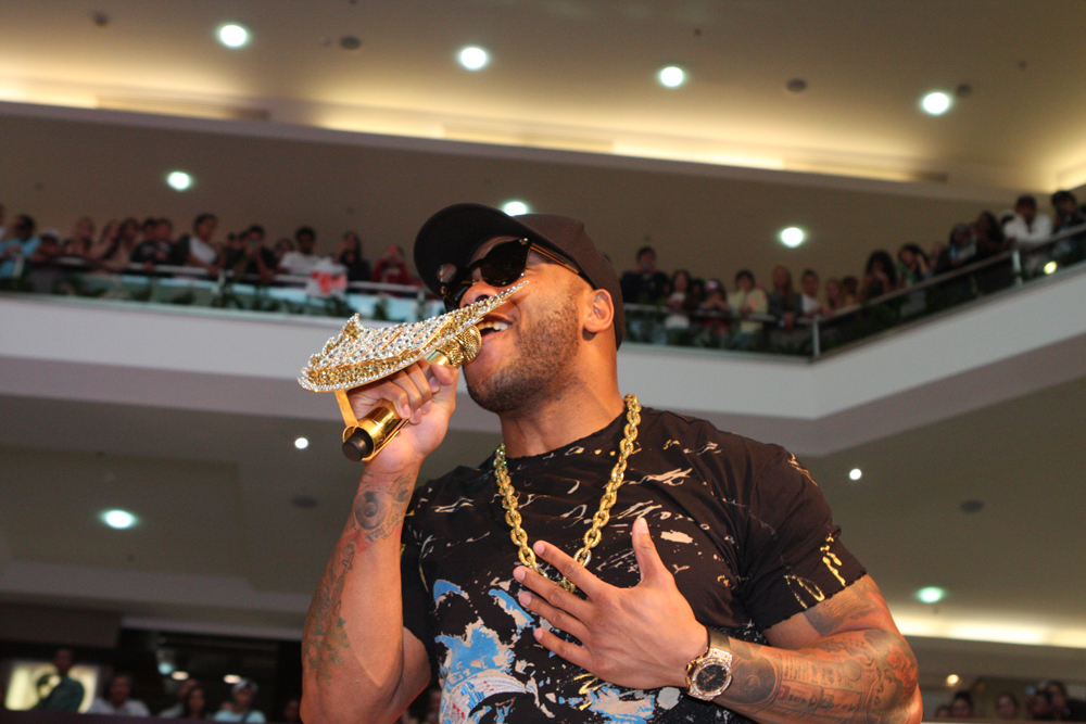 Flo Rida in Sydney.